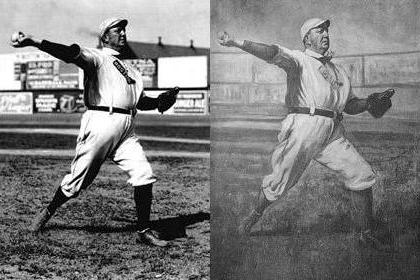 This is a photo taken of Cy Young in 1908, and a black-and-white print of a color painting made from it. We know the photo is from 1908 because that's the only year they wore the red stocking on their shirts.